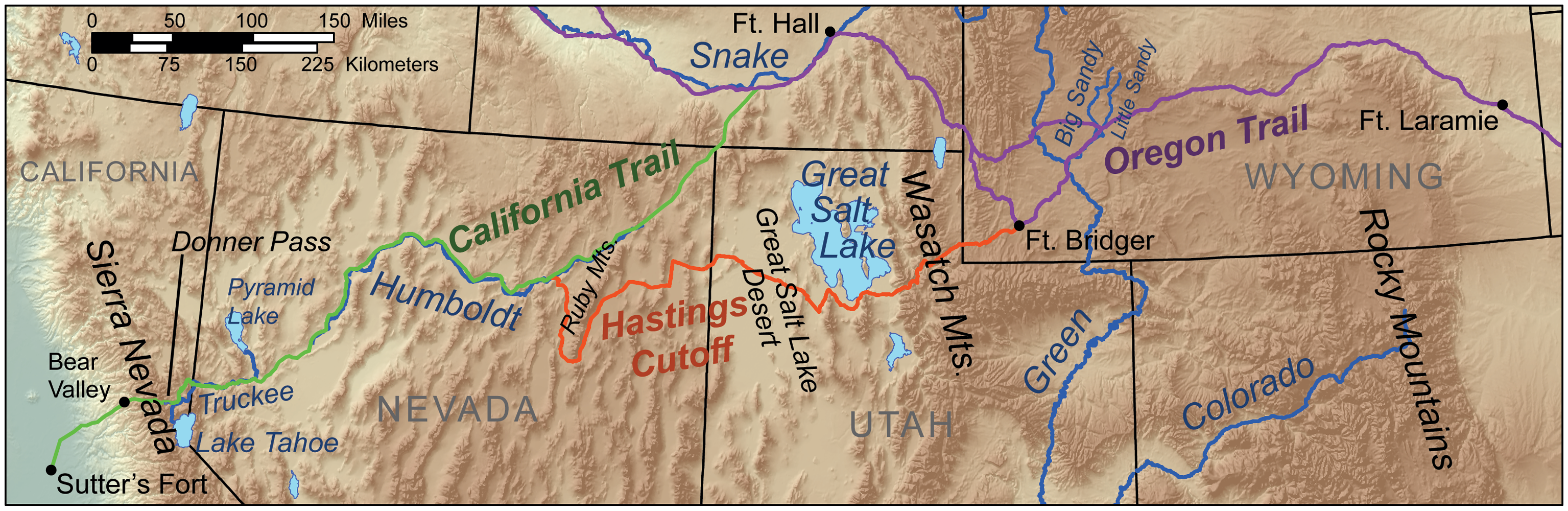 Map showing the route taken by the Donner Party.